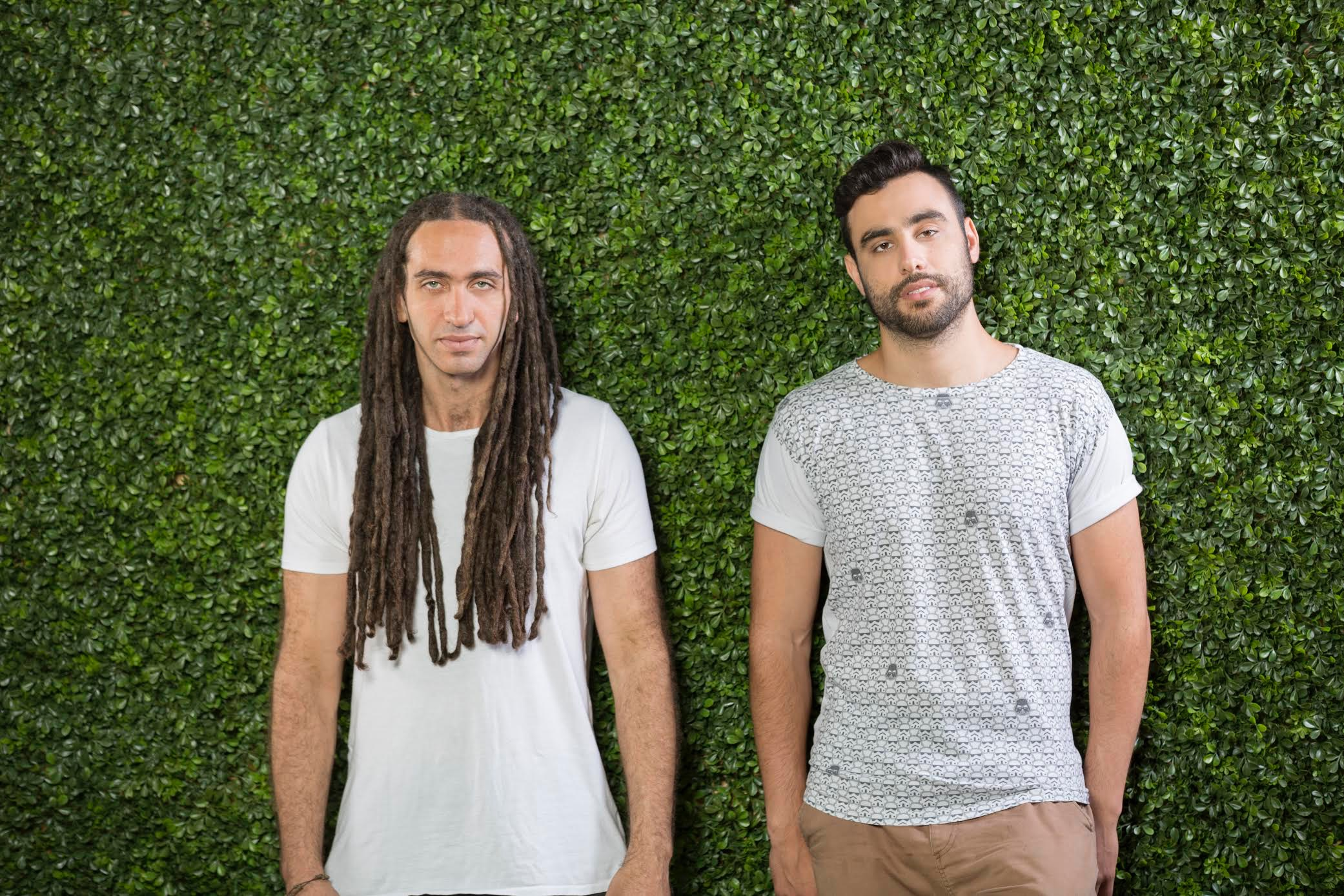 Sultan + Shepard Official Press Photo